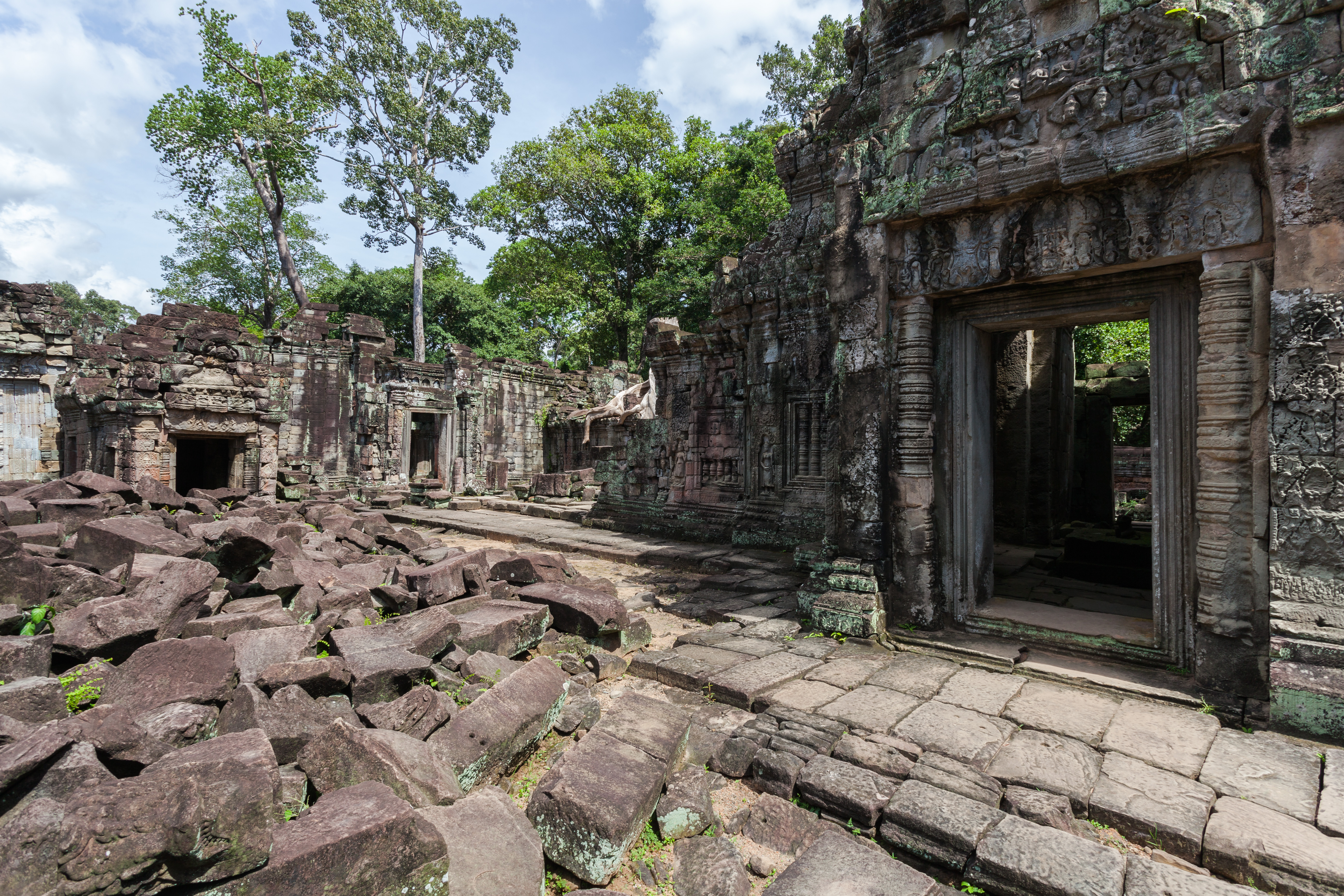 Preah Khan, Angkor, Cambodia